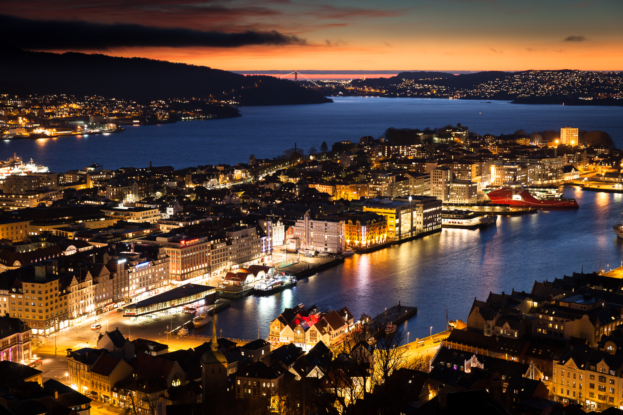 Bergen at Night - sunset, Norway